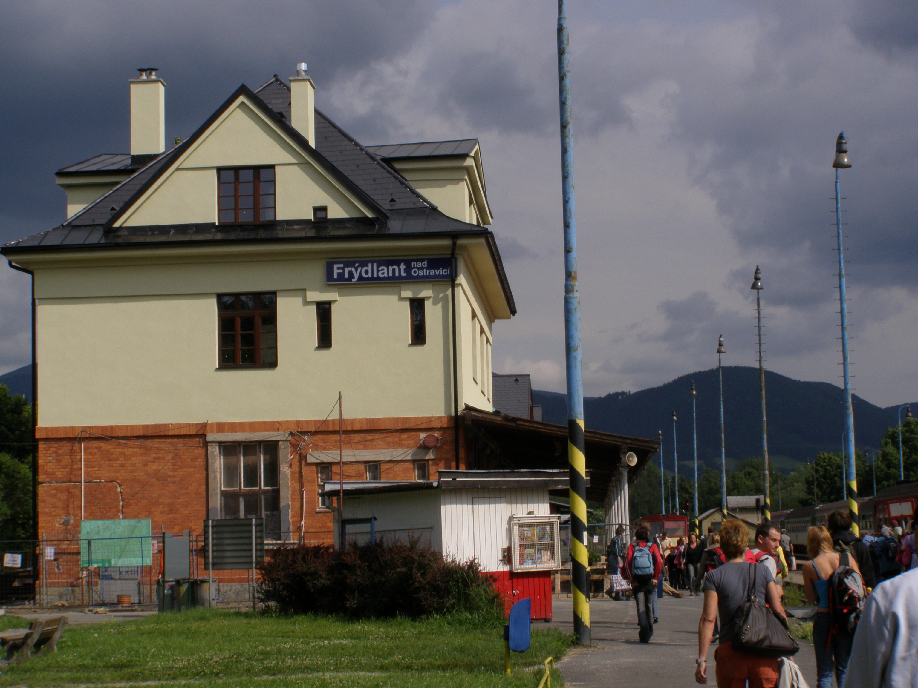 Train station in Frýdlant nad Ostravicí